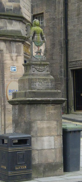 Statue to St Michael The Statue stands to the East end of the High Street. St Michael is the patron Saint of Linlithgow. The shield bears the Black Bitch which is the sign of Linlithgow. Use of the name as a description can lead to misunderstanding.